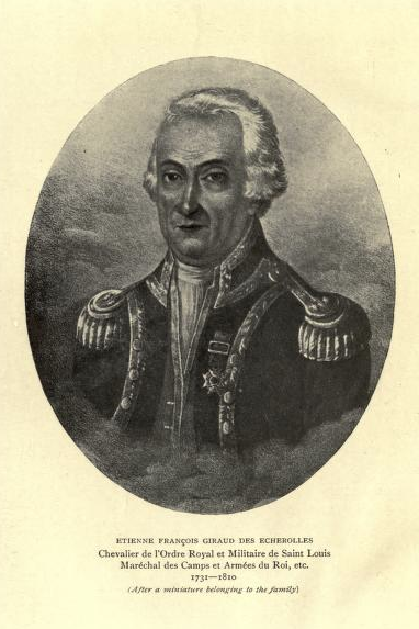 Etienne Francois Giraud des Echerolles, Chevalier de l’Ordre Royal et Militaire de Saint Louis — Marechal des Camps et Armees du Roi, etc. 1731-1810 (after a miniature belonging to the family)